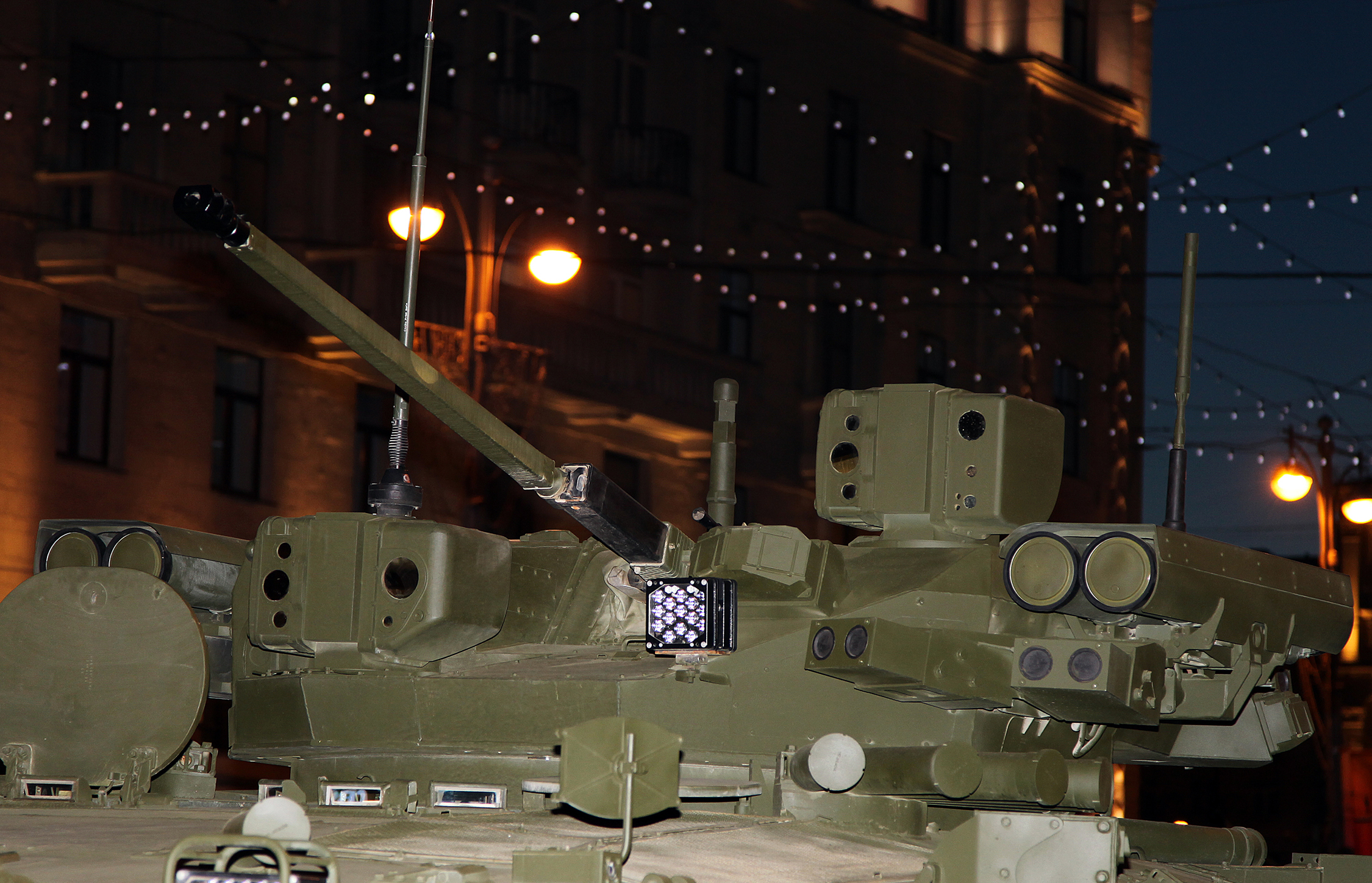 IFV object 695 on Kurganets-25 platform